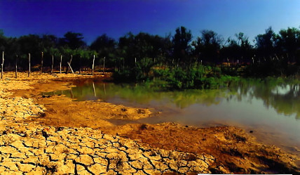 northeastern Caatinga